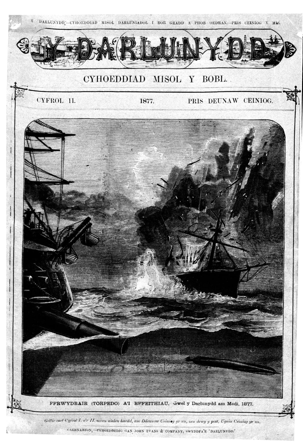 A popular Welsh language illustrated periodical that published poetry and articles on literature, current affairs and prominent Welshmen. The periodical was edited by the journalist John Evans Jones (Y Cwilsyn Gwyn, 1839-1893). Originally a monthly periodical, it was published fortnightly in September 18897 and weekly in October 1879, before reverting to being a monthly the following month.